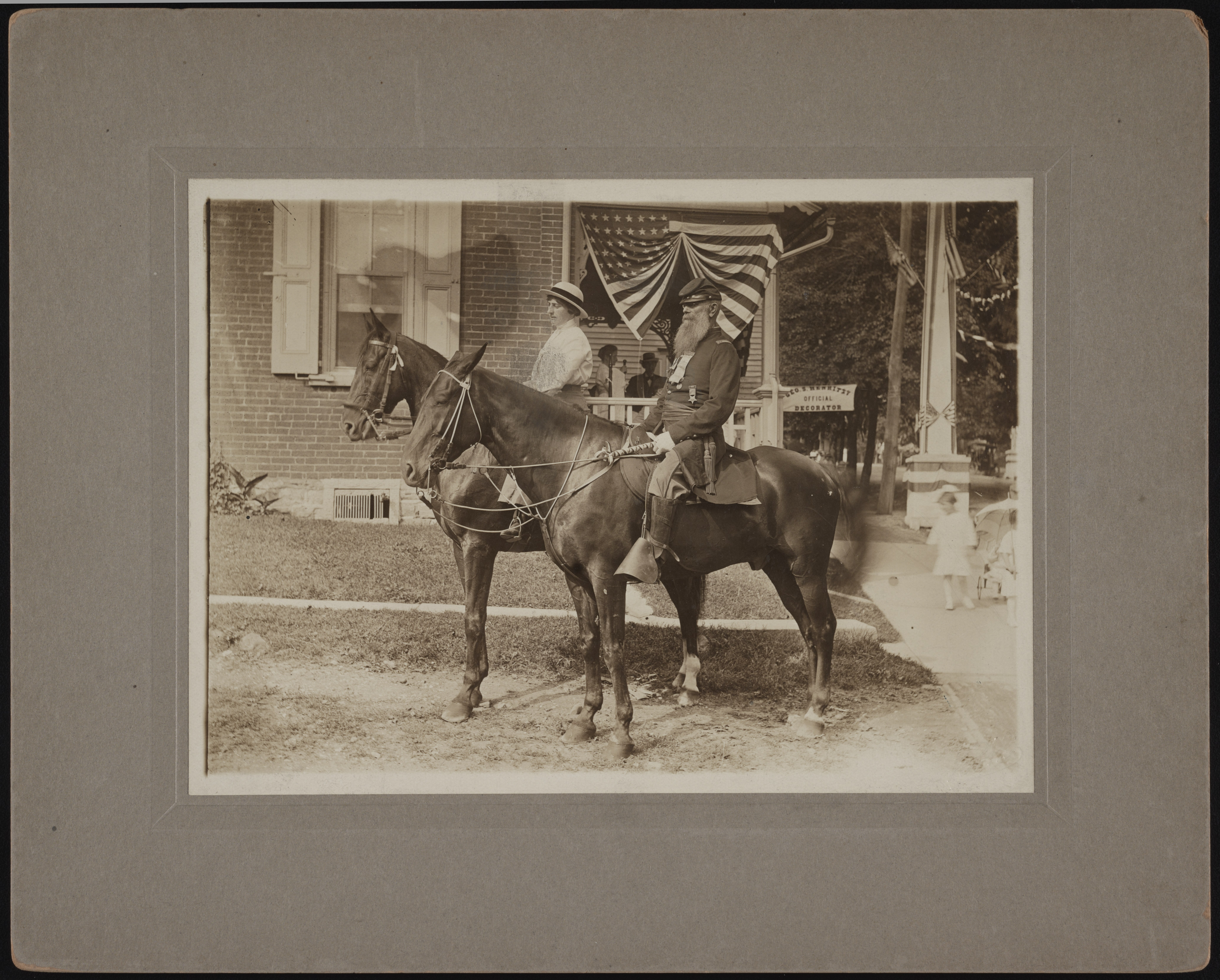 Title: Civil War veteran Joseph Matchette in uniform with medals and his aide, Mrs. Minnie Lazarus, on horseback] / Roth Abstract/medium: 1 photograph : gelatin silver print on card mount ; sheet 13 x 18 cm, mount 21 x 26 cm.